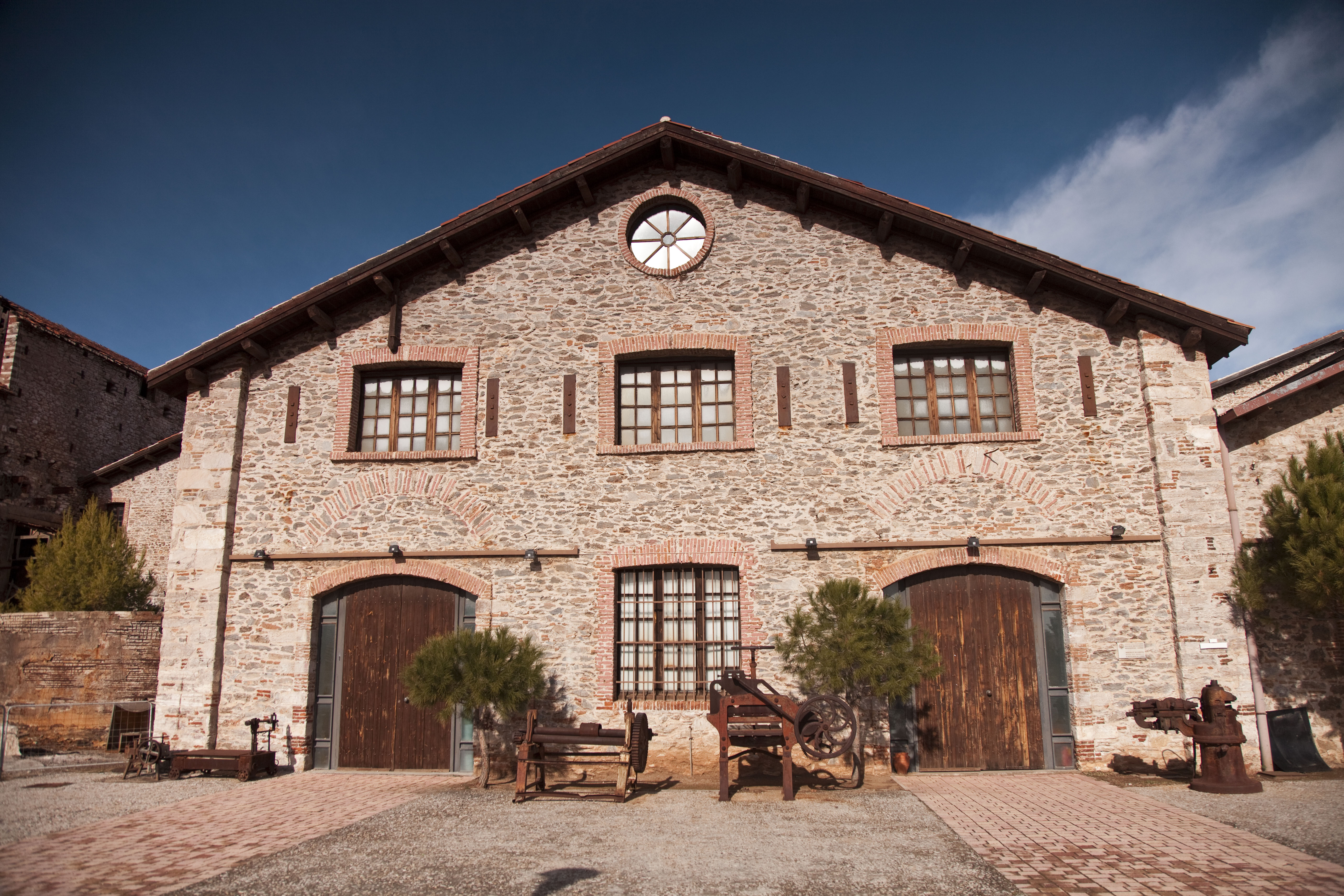 Old Machine Works Lavrion, The Lavrion Technological and Cultural Park (LTCP), Attica, Greece